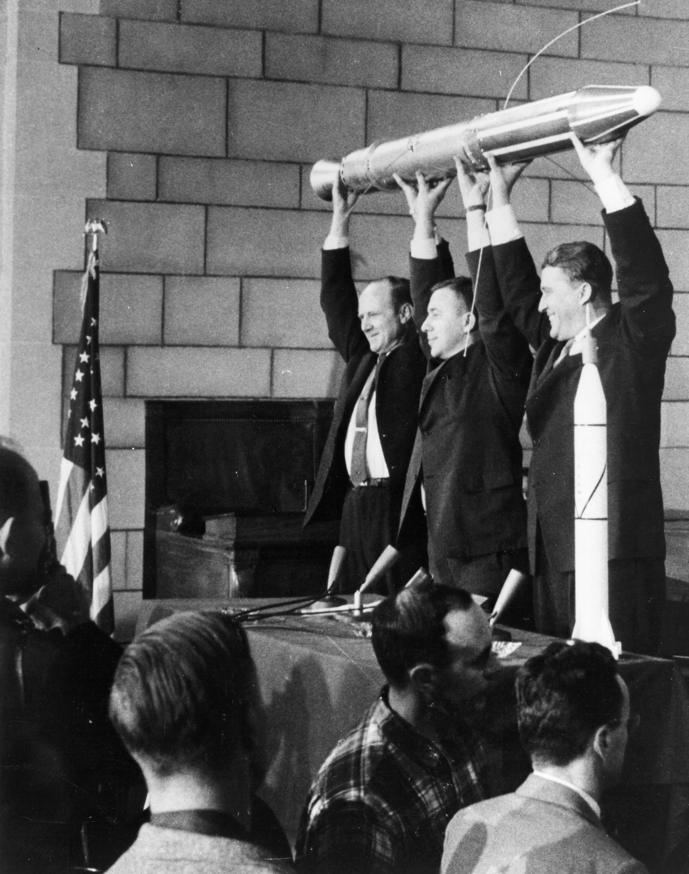 The creators of Explorer 1 holding a model of it on the press conference at launch day (or the day before), February 1, 1958 (or January 31, 1958). Starting from left side: Ph.D. William Pickering, Ph.D. James Van Allen, Ph.D. Wernher von Braun